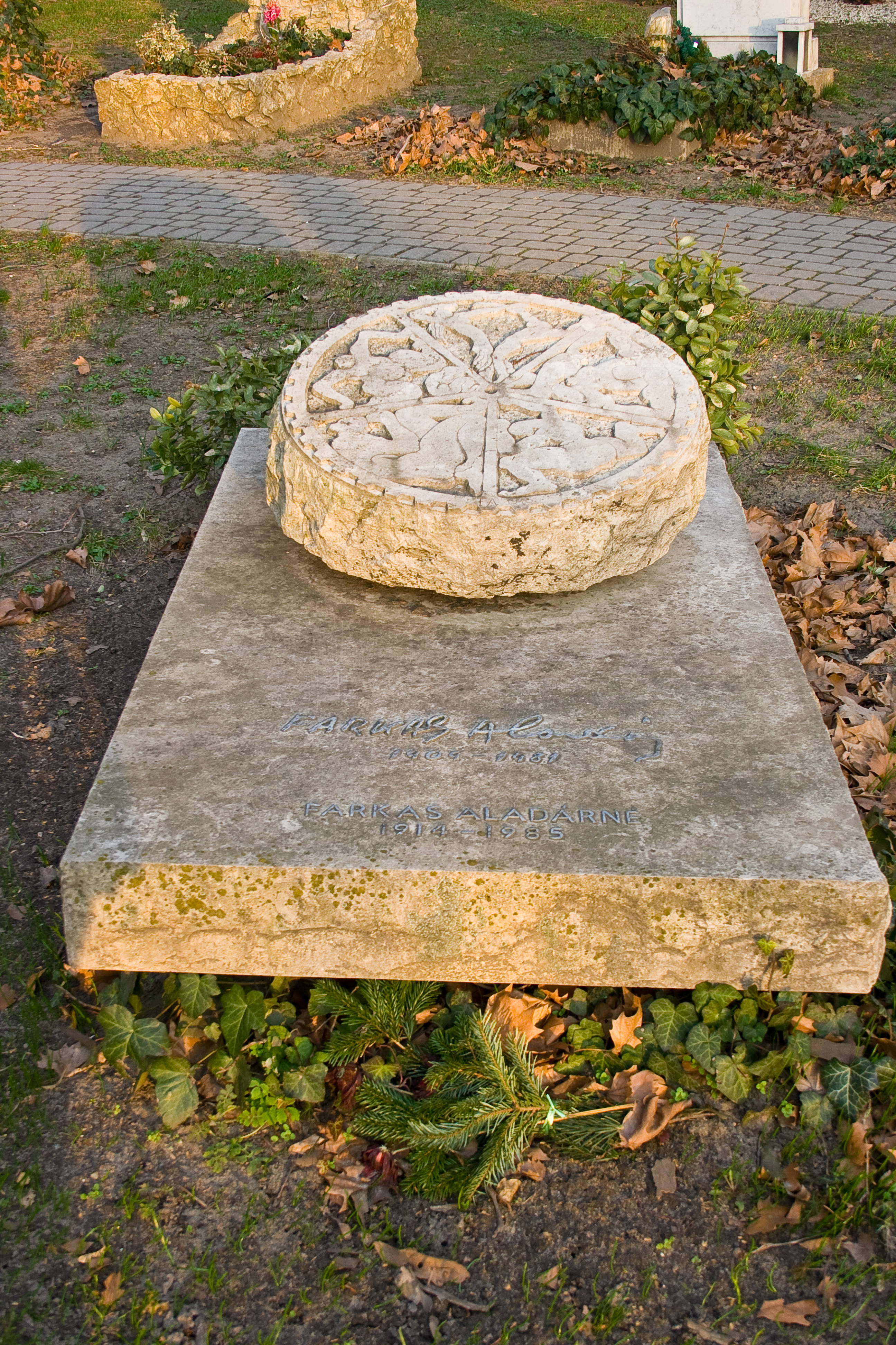 Tomb of Aladár Farkas (the sculptor) in Kerepesi Cemetery